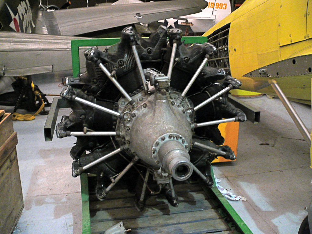 Fiat A.74 RIC38